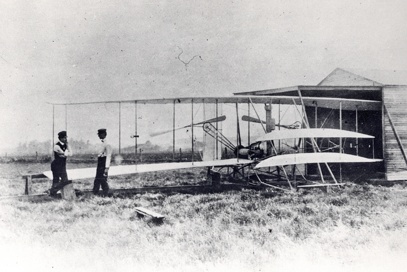 The Wright Brothers, Orville (left) and Wilbur (right), with the 1904 Wright Flyer II at Huffman Prairie. Taken from